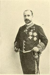 Enrique Dupuy de Lôme